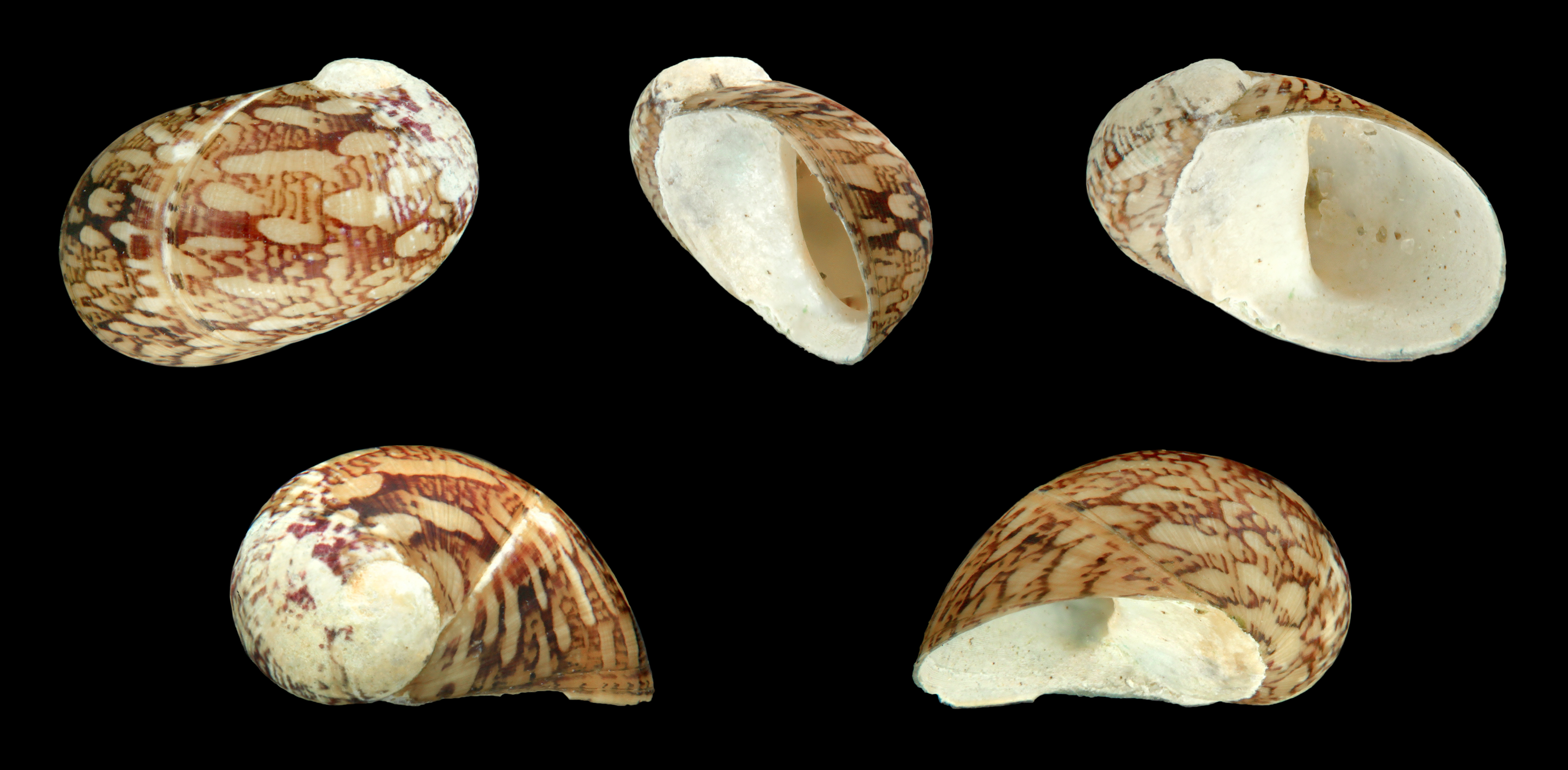 Theodoxus fluviatilis littoralis (Linné,1789) , Freshwater Nerite; Length 0.8 cm; Originating from the Baltic Sea south of Pärna, Estonia.